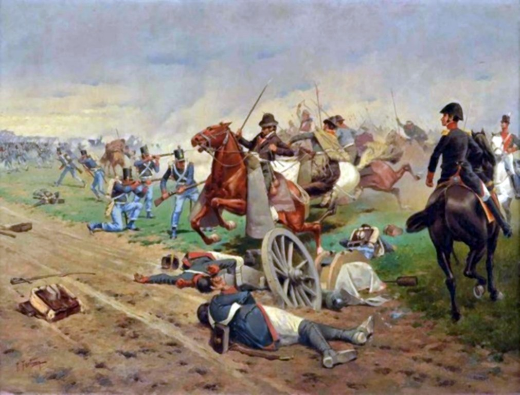 Batalla de Tucumán, oil on canvas by Francisco Fortuny (1865-1942)